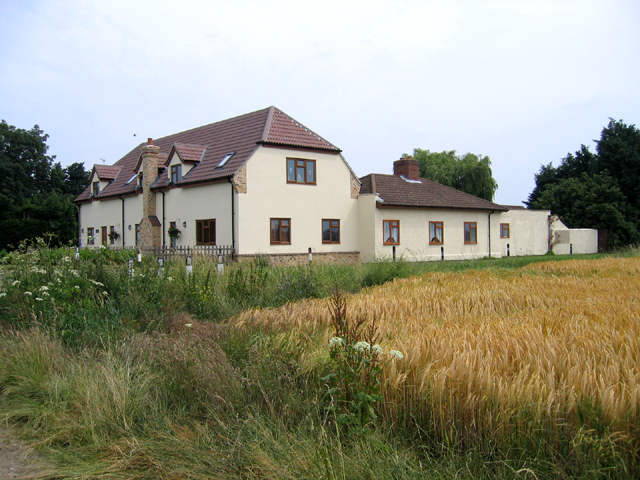 The Old Station, Grunty Fen, Wilburton, Cambs